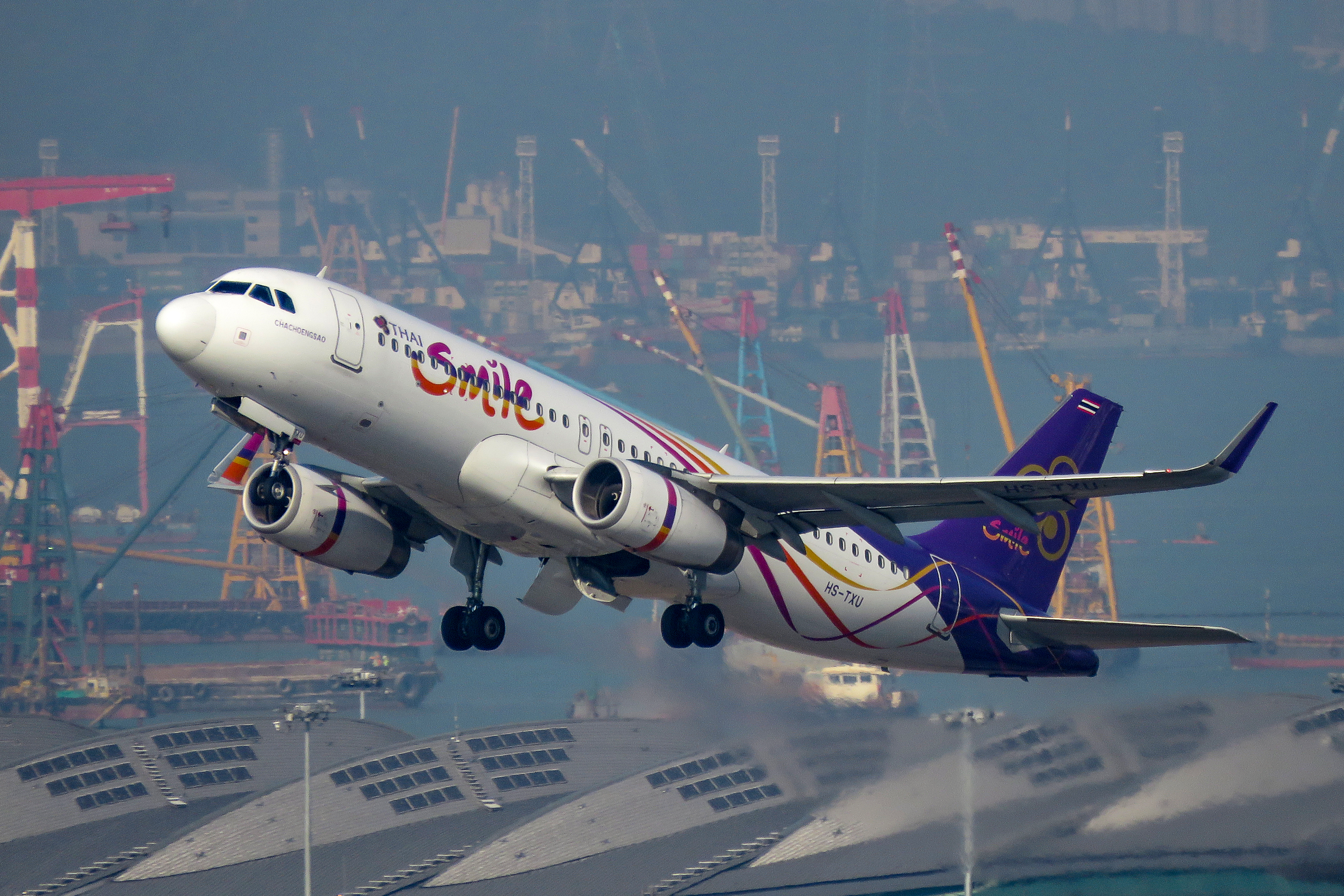 Thai Smile 631 to Bangkok.